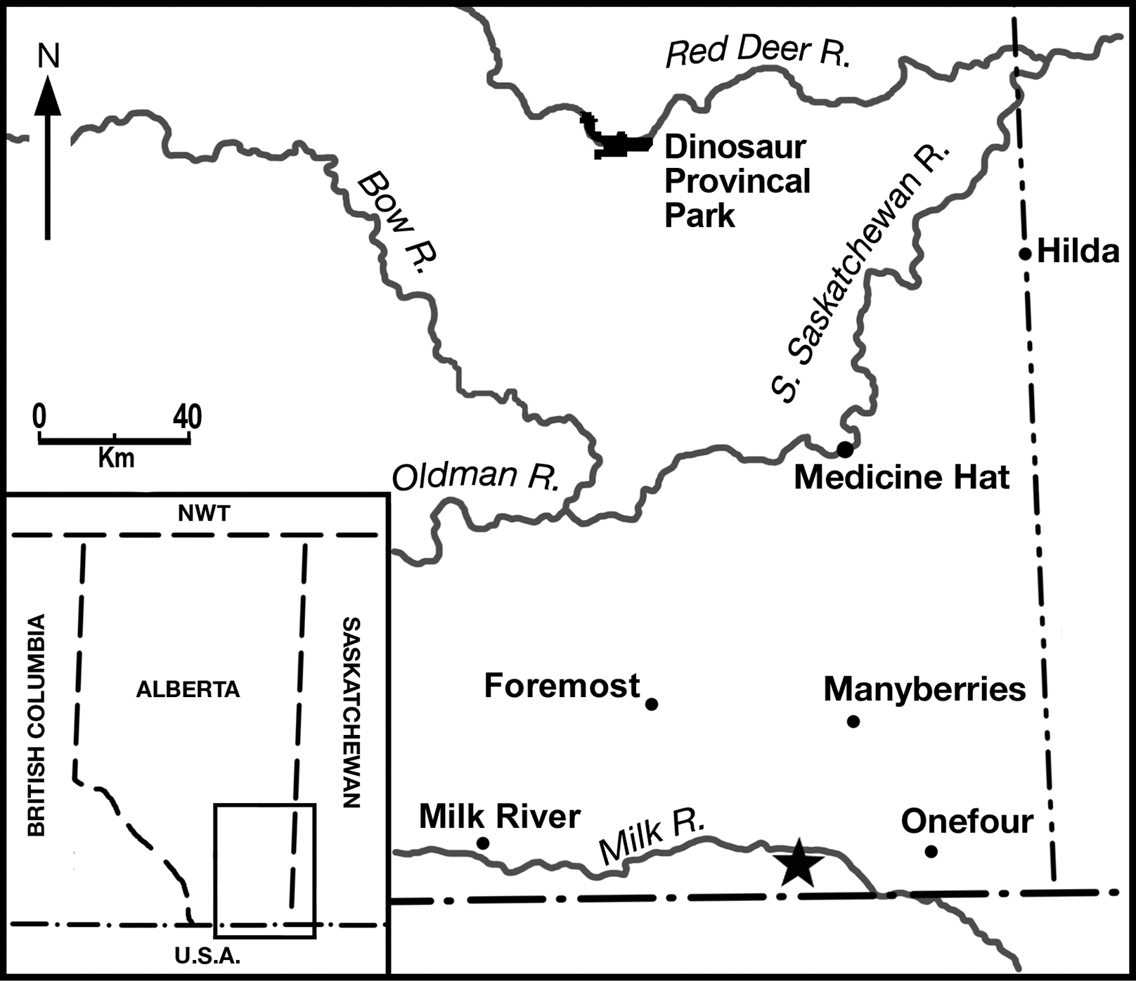 Locality map of southern Alberta, Canada, showing the location of the bonebed (indicated with a star)